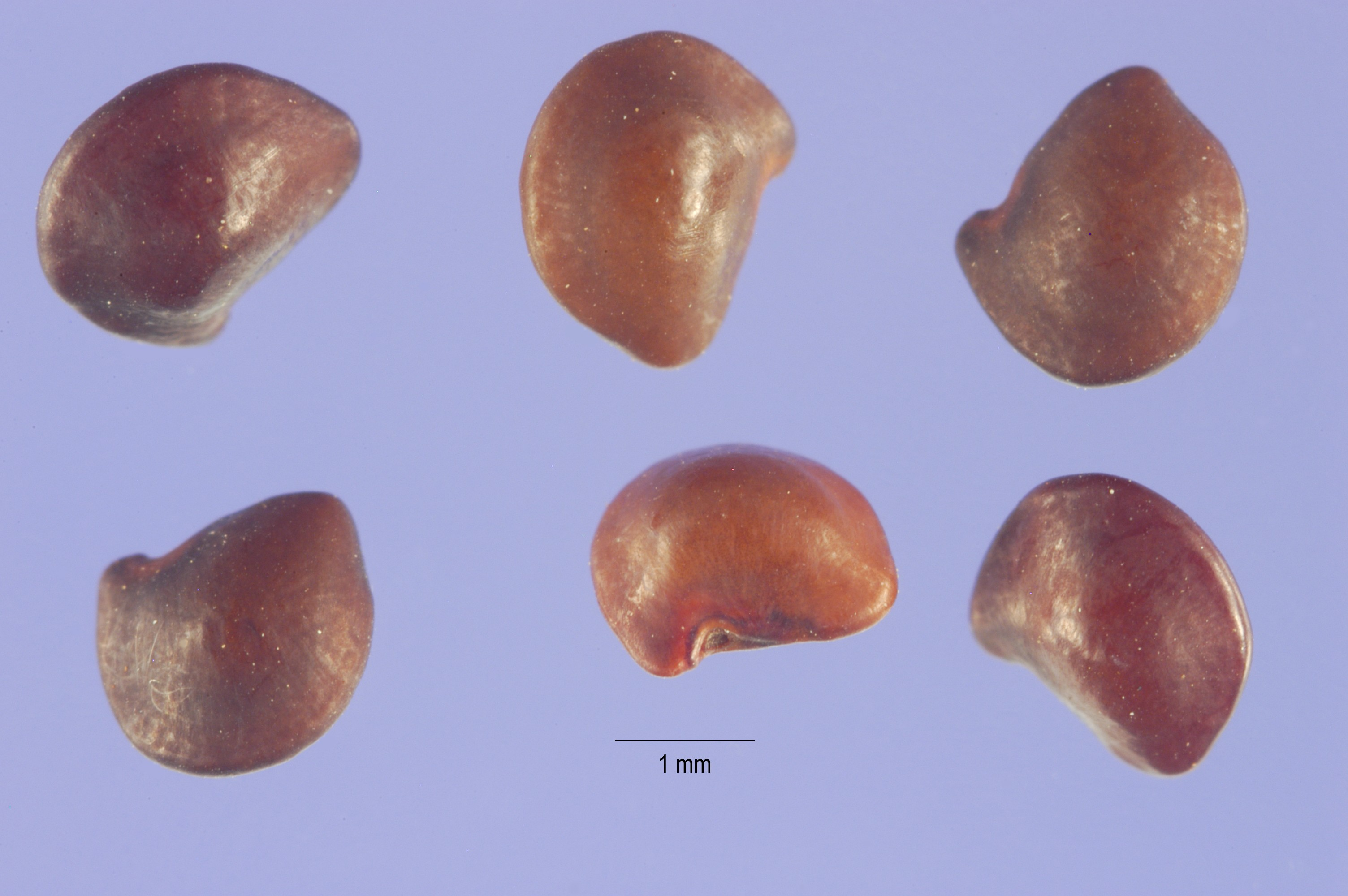 Shyleaf. Seeds from Durango, Mexico.